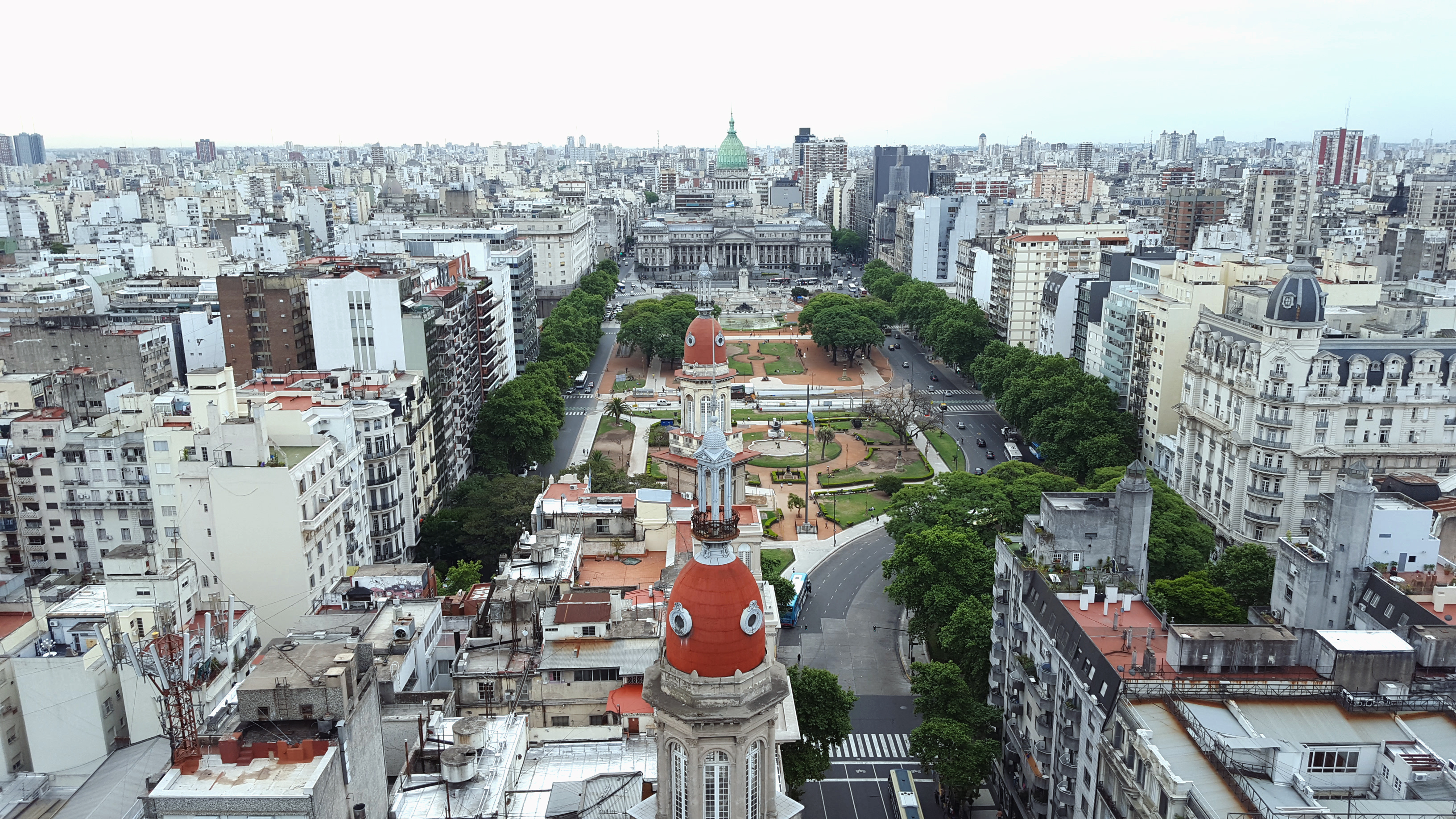 Buenos Aires' Congress Park viewed form the Palacio Barolo.